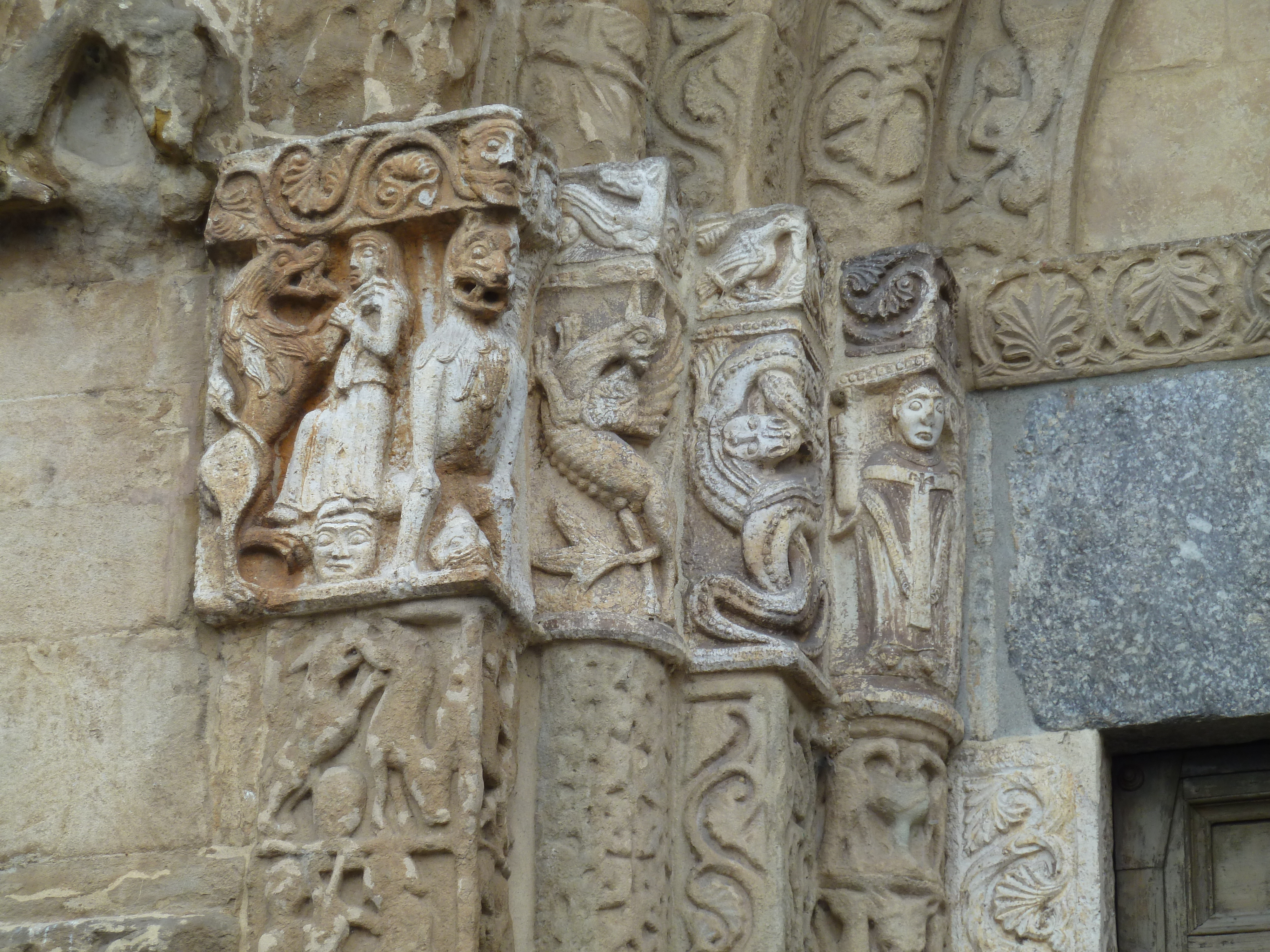 Church of San Michele (Pavia, Lombardy). West facade. Main portal. Left capitals.